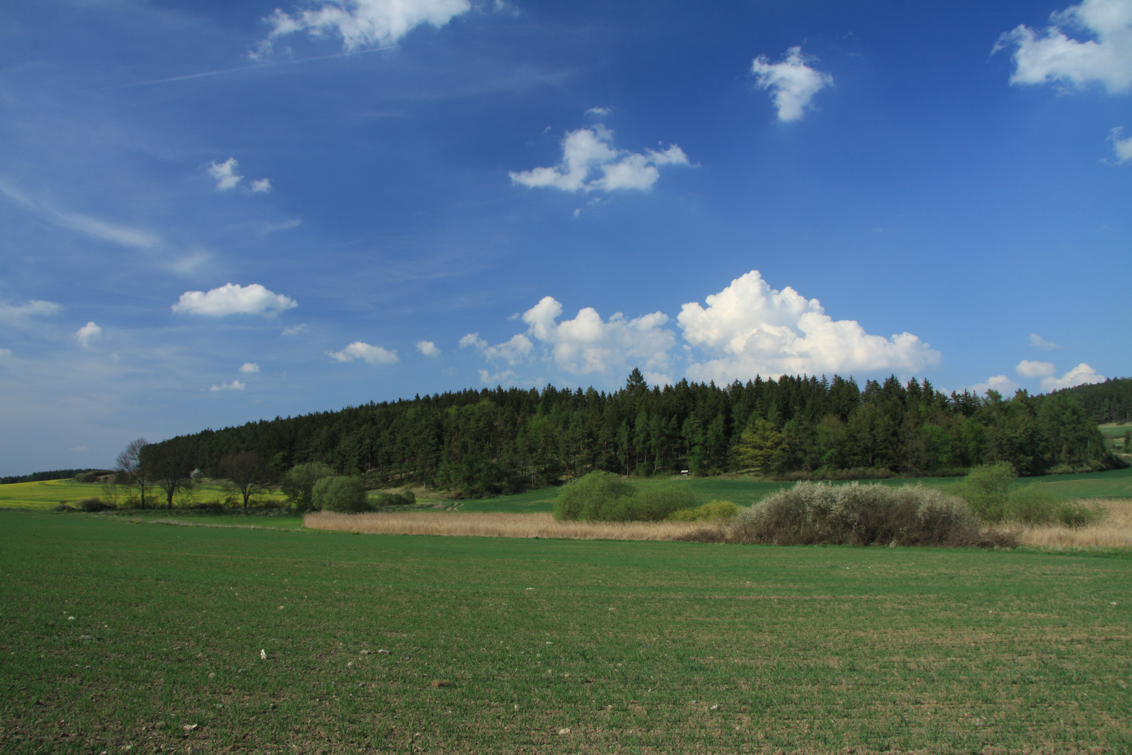 Natural monument Sedlina in Strakonice District, Czech Republic Project: Chráněná území.